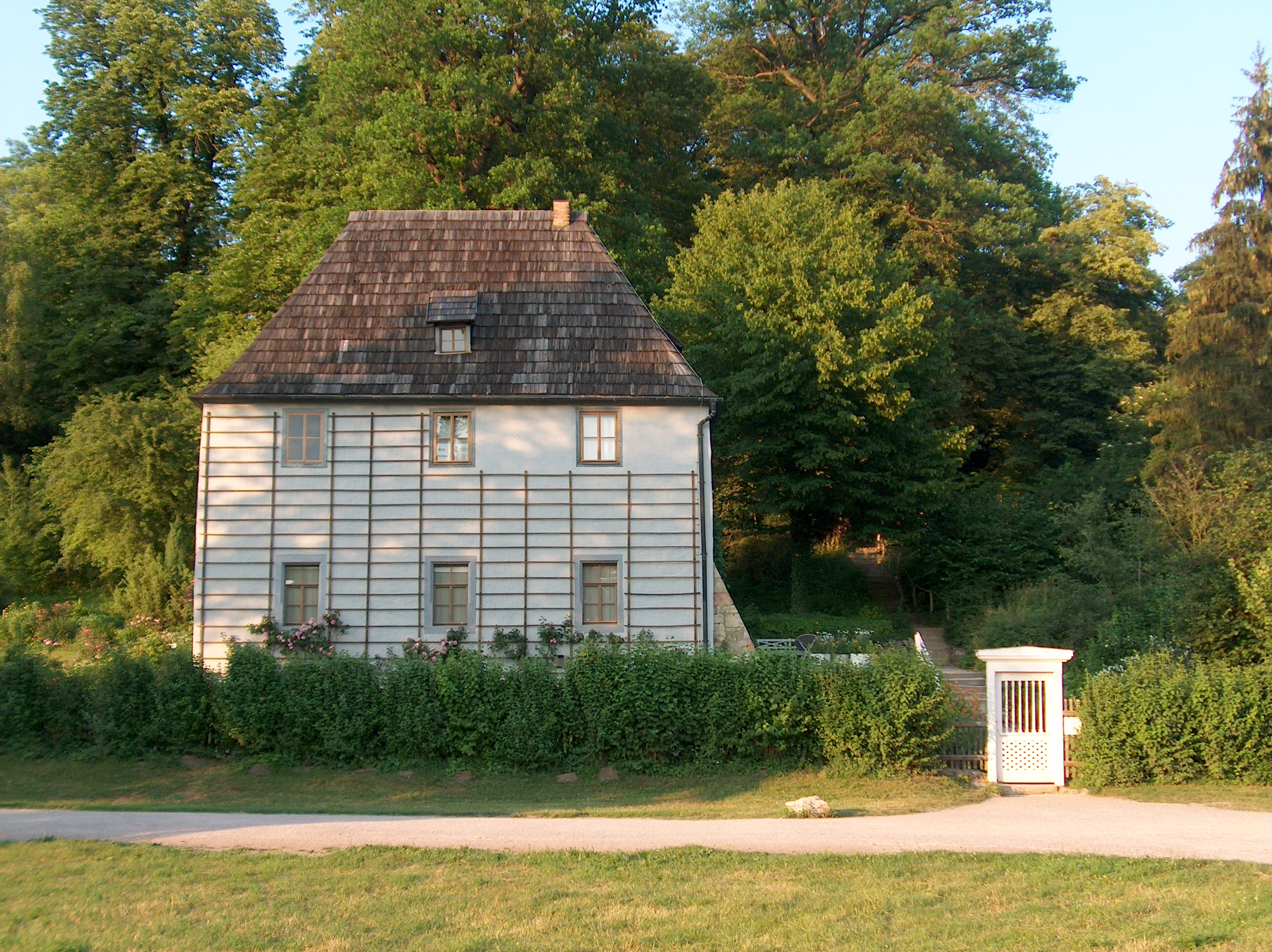 Johann Wolfgang von Goethe's garden house in Weimar, Germany